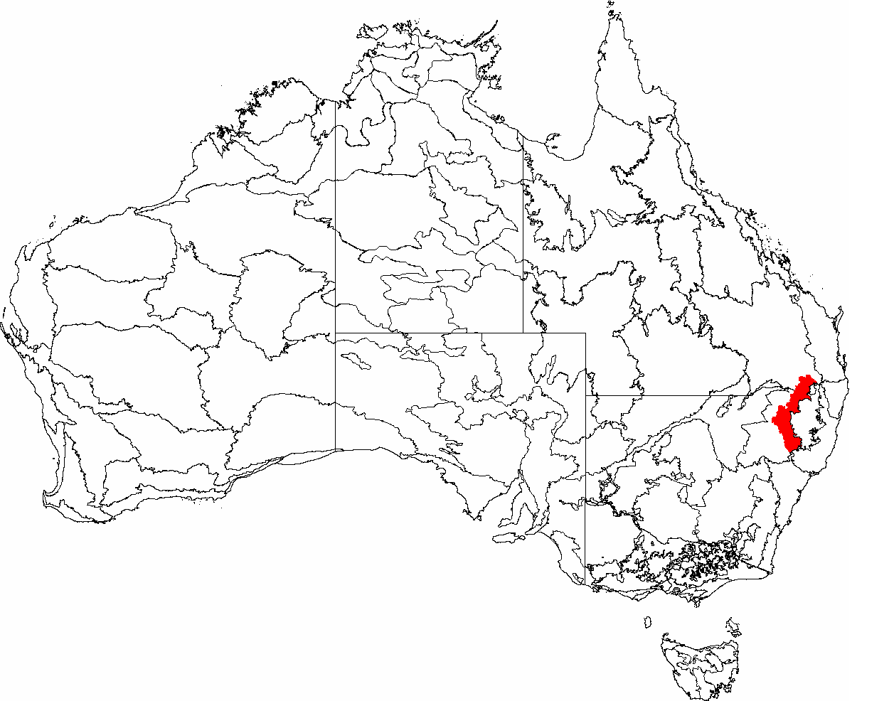 This is a map of the Interim Biogeographic Regionalisation of Australia (IBRA), with state boundaries overlaid. The Nandewar region is shown in red.